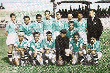 Sika Club in 1935, during the inauguration of the Municipal Stadium of Beirut. Camille Cordahi (third from left, standing) and Joseph Nalbandian (goalkeeper).